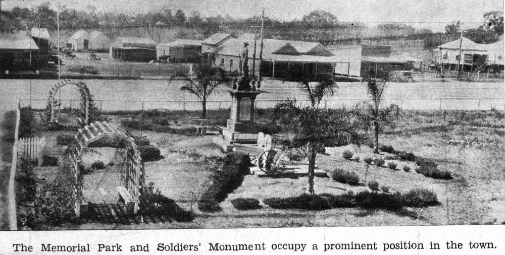 Memorial Park and Soldiers' Monument, Chinchilla 1935. Chinchilla Memorial Park was a formal garden with palm trees and decorative borders. The park featured a soldiers' monument, a cannon and two shady arbours.